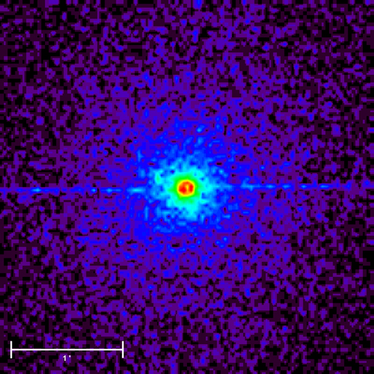 Halo around the X-ray source Cygnus X-3. The halo (beyond the yellow ring in the center) is due to scattering of the x-rays by interstellar dust grains along the line of sight to the source. The sharp horizontal line is an instrumental effect.